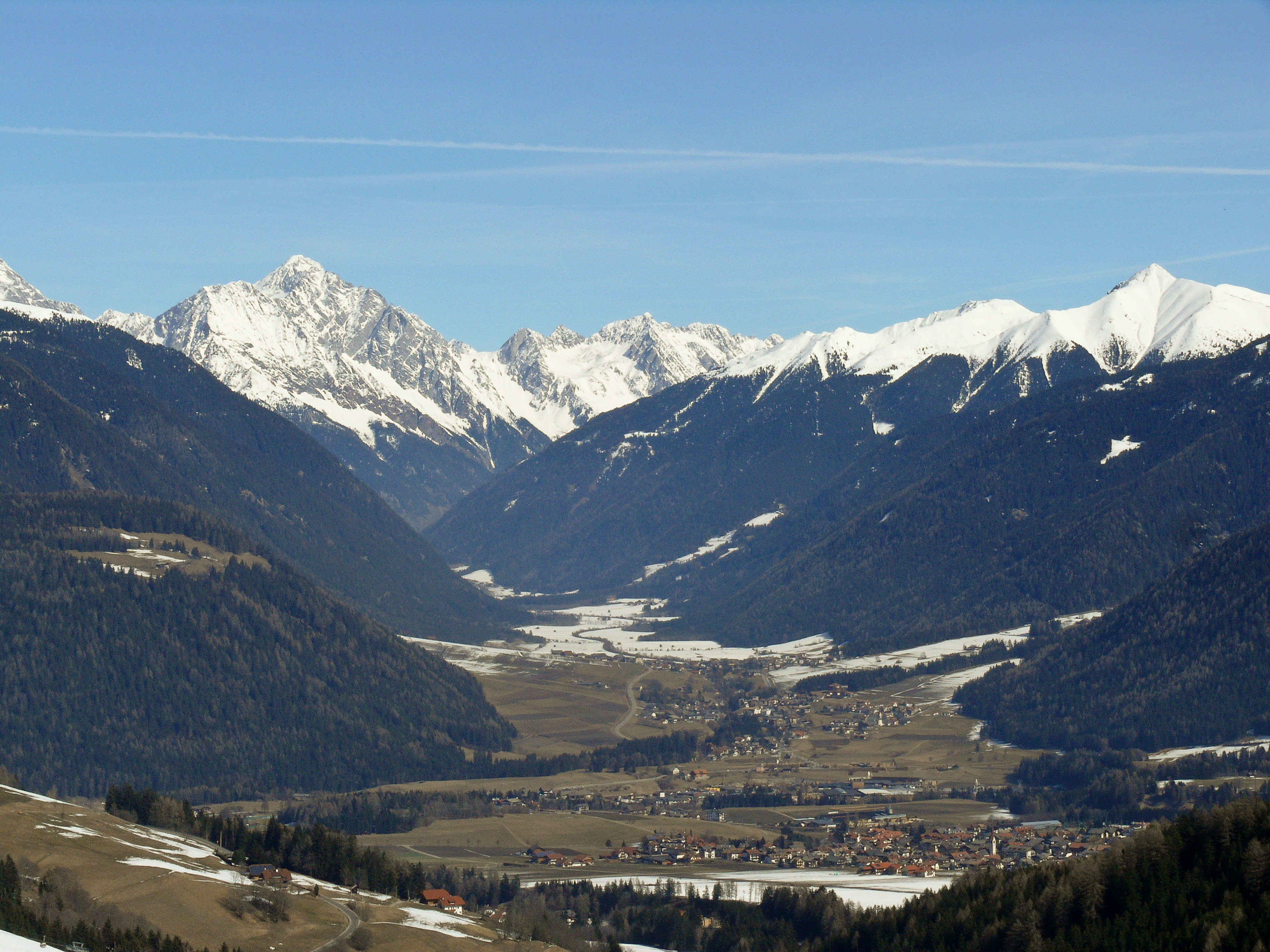 Hochgall (Coll'Alto), 3.436m (left) with Ohrenspitzen 3.101m (center) and Amperspitze 2.687m (right), seen from Geiselsberg (Sorafurcia). Mitterolang (Valdaora di Mezzo), Rasen (Rasun) and Antholzertal in the foreground (front to back).